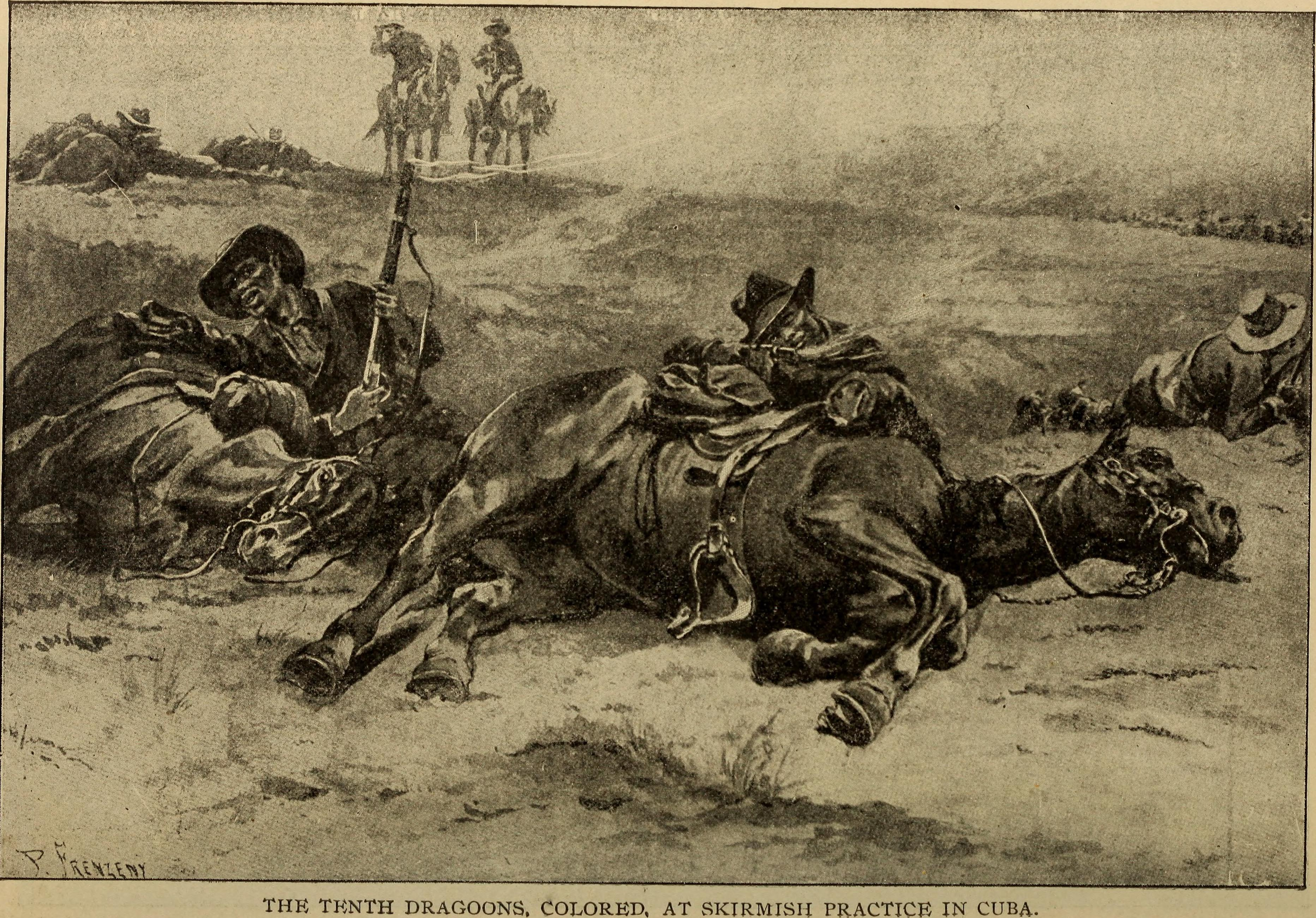 Title: Hero tales of the American soldier and sailor as told by the heroes themselves and their comrades; the unwritten history of American chivalry Year: 1899 (1890s) Authors: Buel, James W. (James William), 1849-1920 Subjects: Spanish-American War, 1898 Publisher: Philadelphia, Pa., Century manufacturing company Text Appearing Before Image: ' Text Appearing After Image: L V